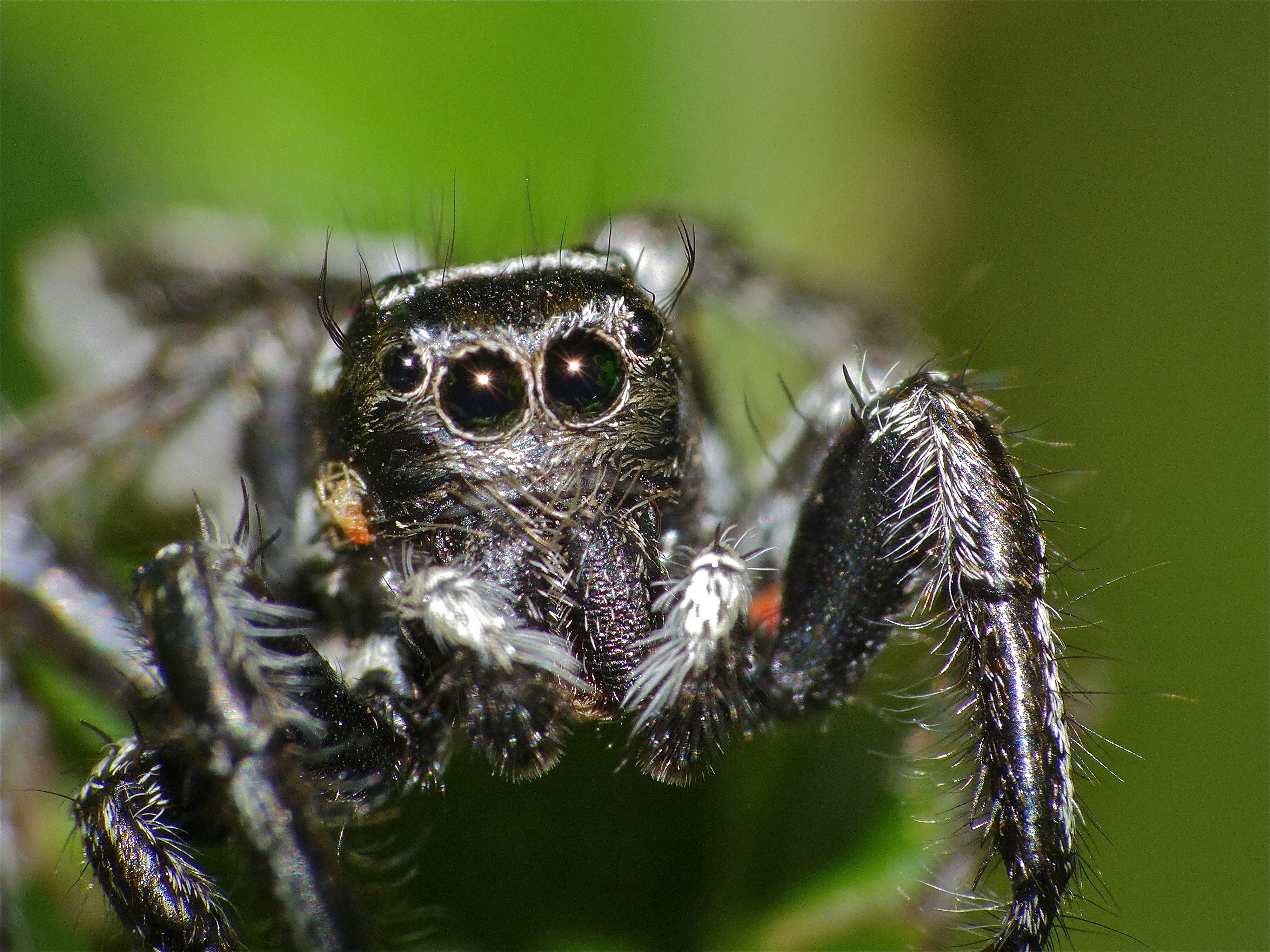 Tamboti Tented Camp, Kruger NP, SOUTH AFRICA